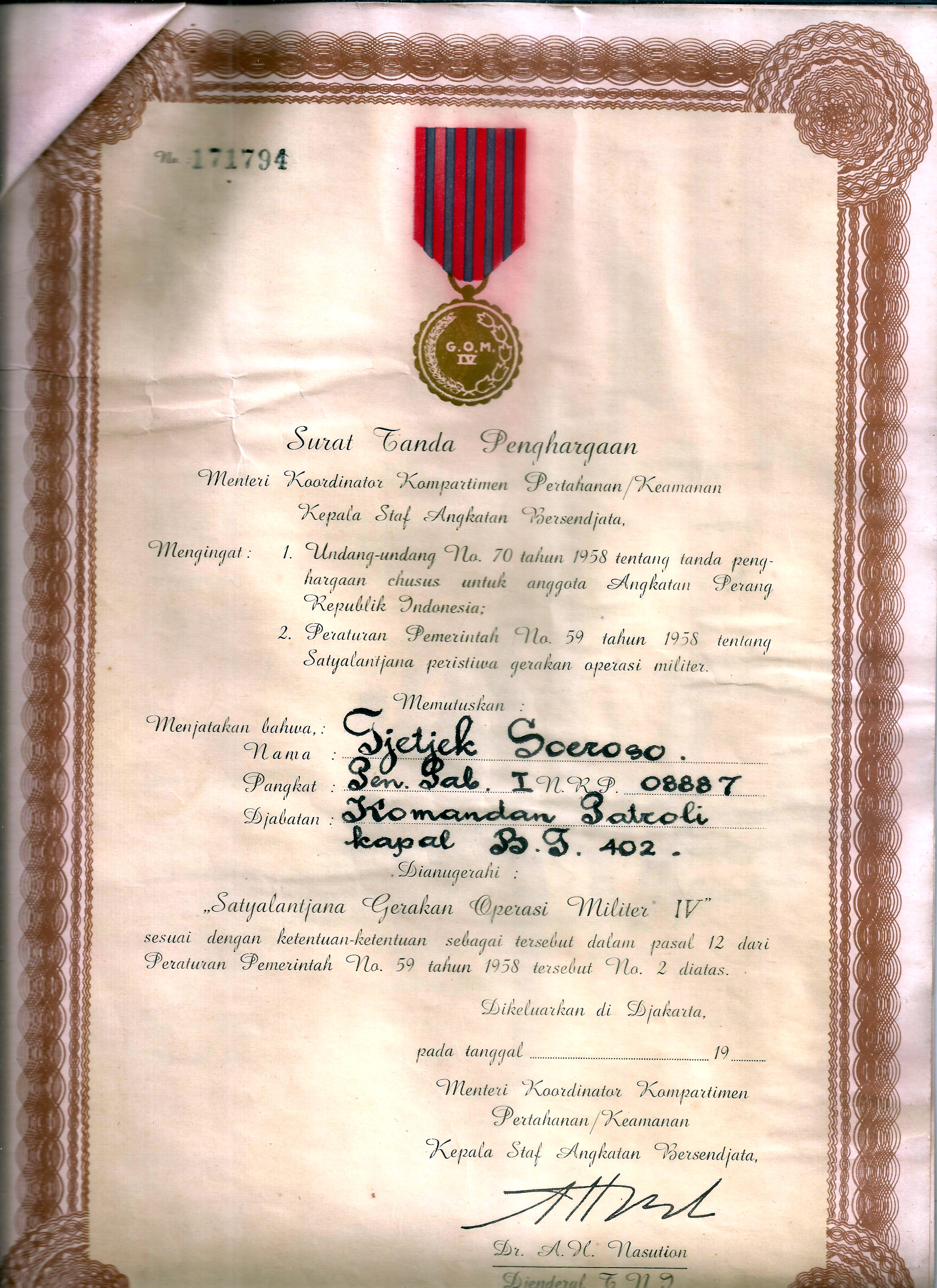 Gerakan Operasi Militer IV diploma as received by my grandfather